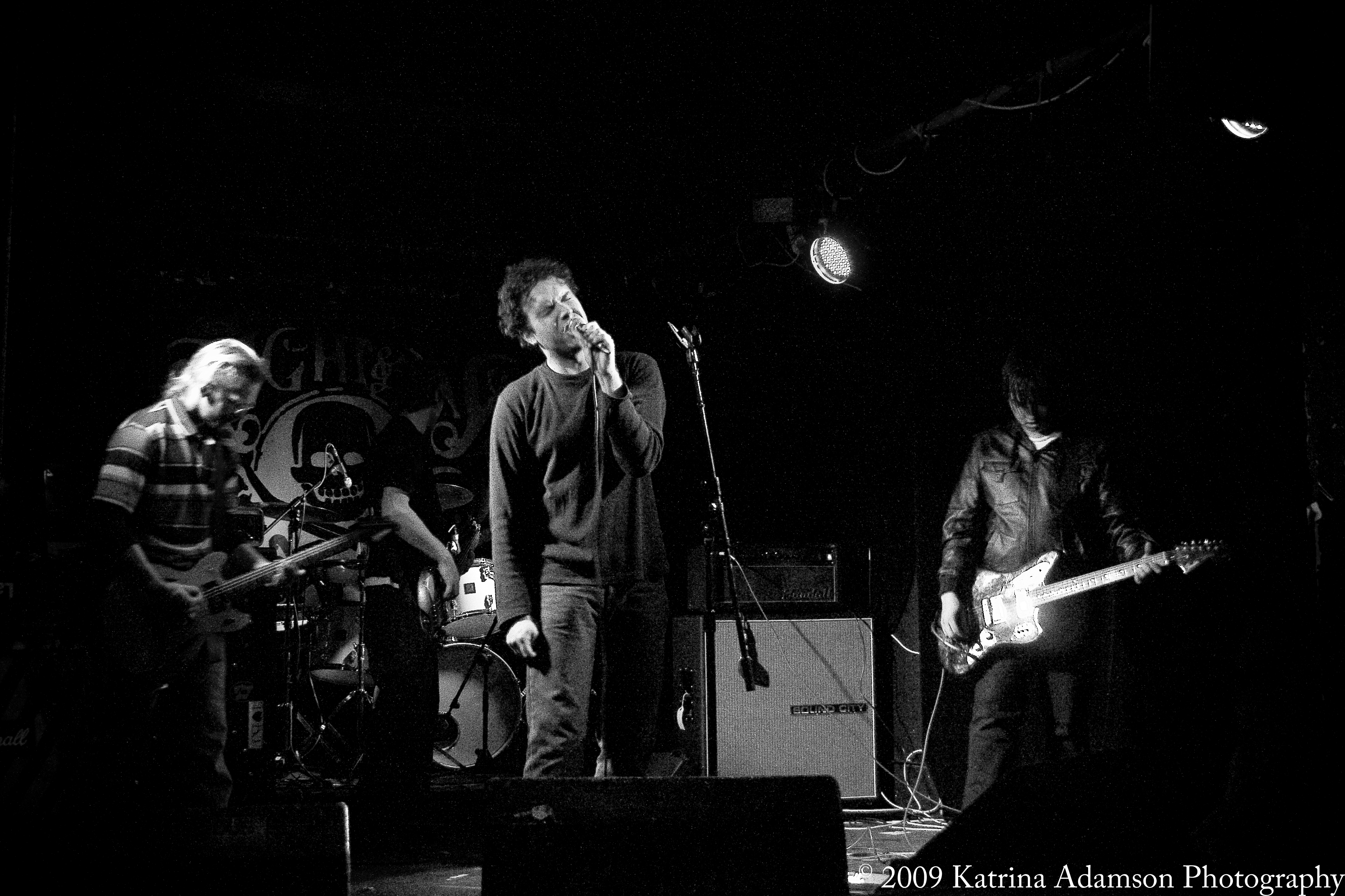 Black Jackson at the night and day cafe, Manchester